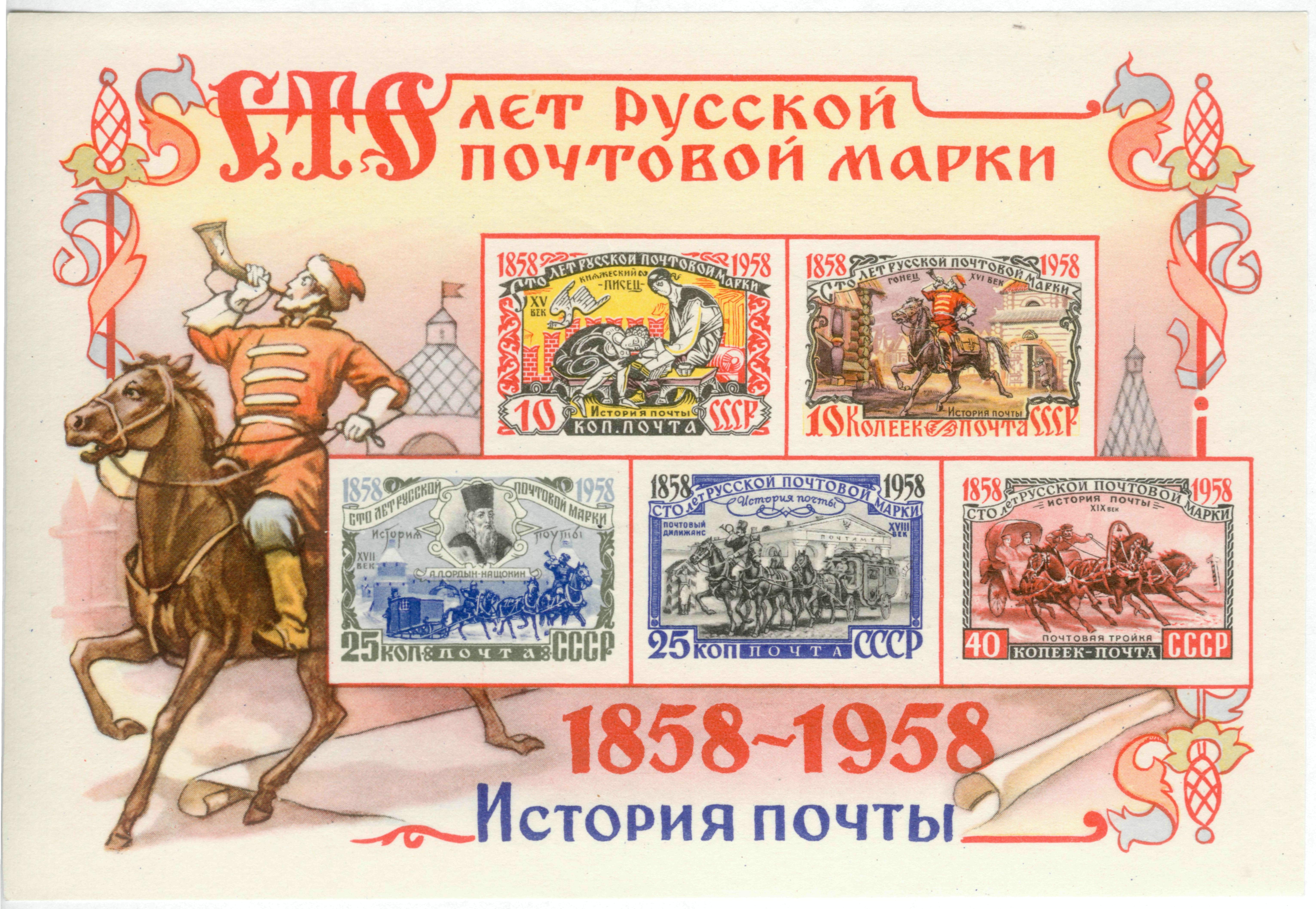 USSR miniature sheet, 1958, A Centenary of the Russian postage stamp. Mint. CPA #2214.